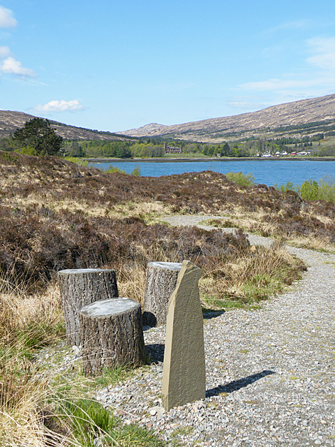 Irvine Butterfield Memorial The stone slab standing vertically beside the simple picnic site is carved in memory of the late Irvine Butterfield (1936 - 2009), a Yorkshireman who became one of the great mountain walkers of his adopted country, Scotland. He was one of the earliest to climb all of the Munros, and a founder of the John Muir Trust, and in 1986 he published 'The High Mountains of Britain and Ireland'. He had strong links to Rùm, having masterminded the restoration of the bothy at Dibidil, which makes it possible for walkers to explore the southern part of the island, and was also the author of 'Dibidil – A Hebridean Adventure'. The memorial bears a quotation from William Blake's 'Gnomic Verses': "Great things are done when men and mountains meet; This is not done by jostling in the street." It was carved by Bruce Walker, a sculptor from Kirriemuir, and stands close to the new path from the pier to the Otter Hide.